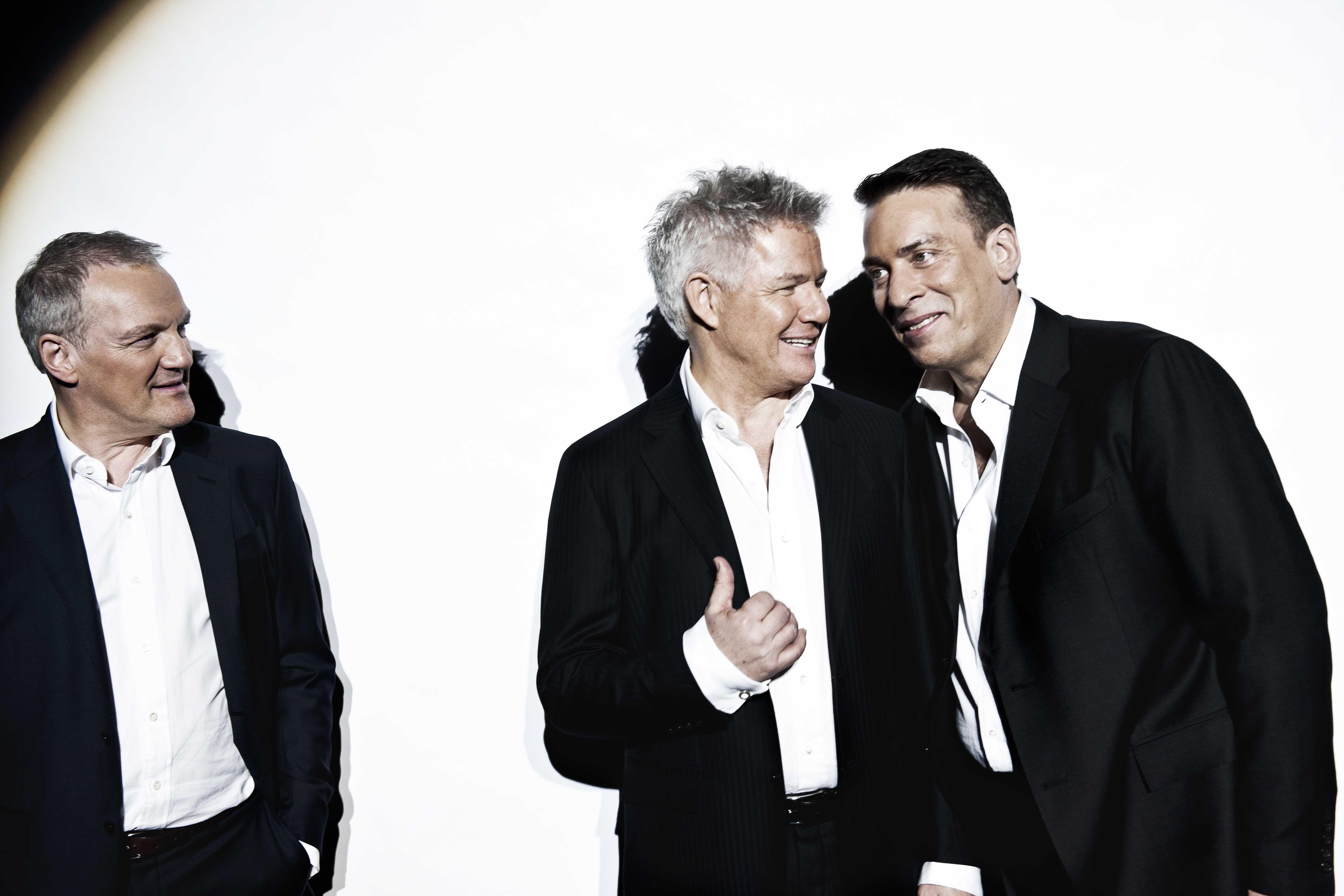 From the latest show